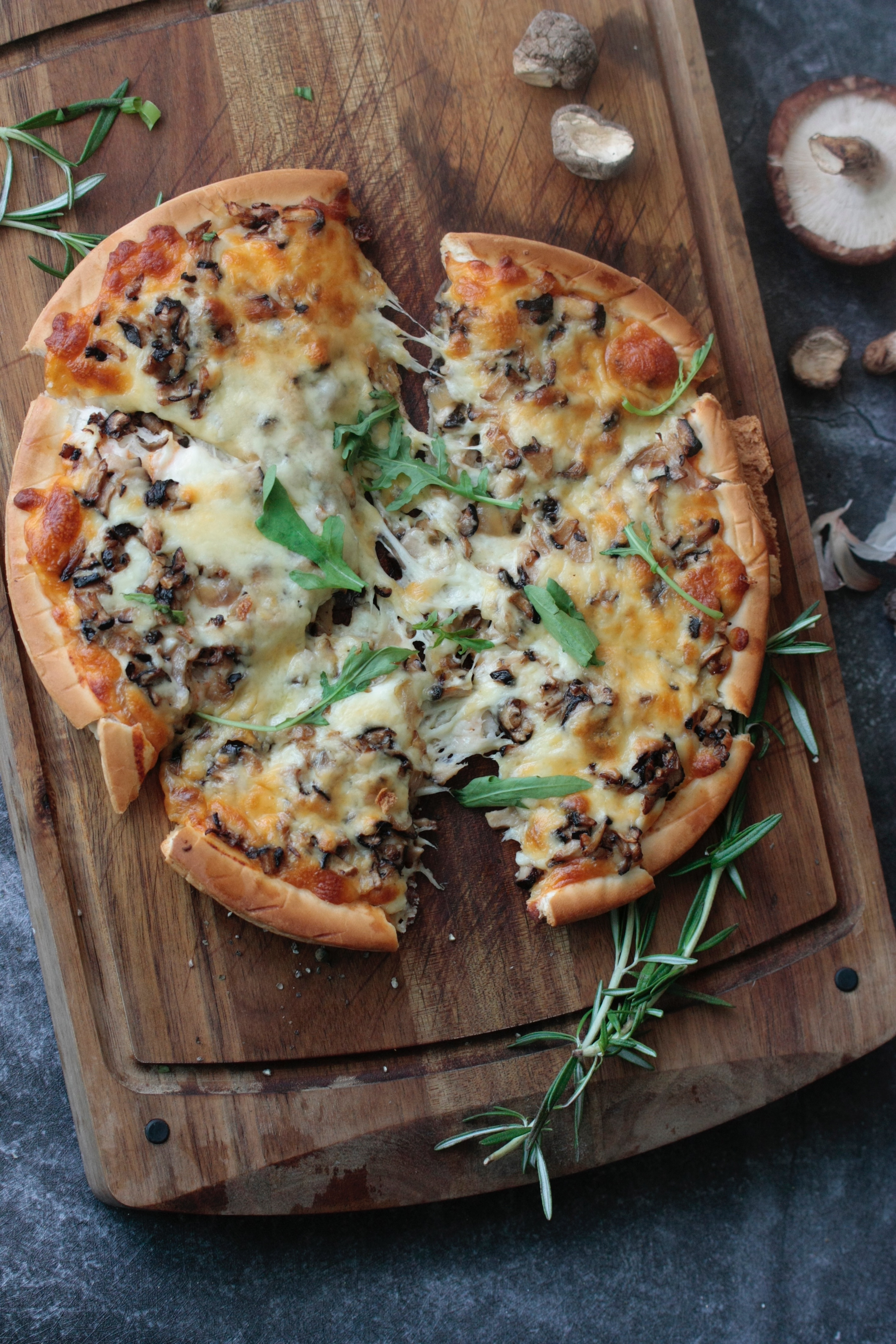 Pizza with mushrooms and cheese on a wooden cutting board.